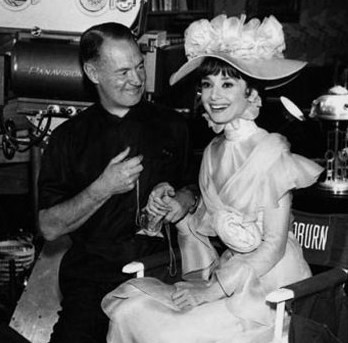 Harry Stradling, Sr. (cinematographer) & Audrey Hepburn on the set of My Fair Lady - publicity still